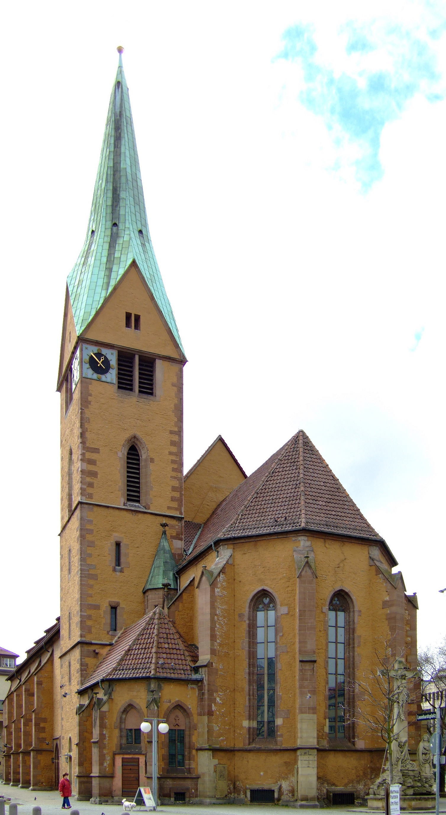 Church "Leonhardskirche" Of The City Stuttgart, View from North